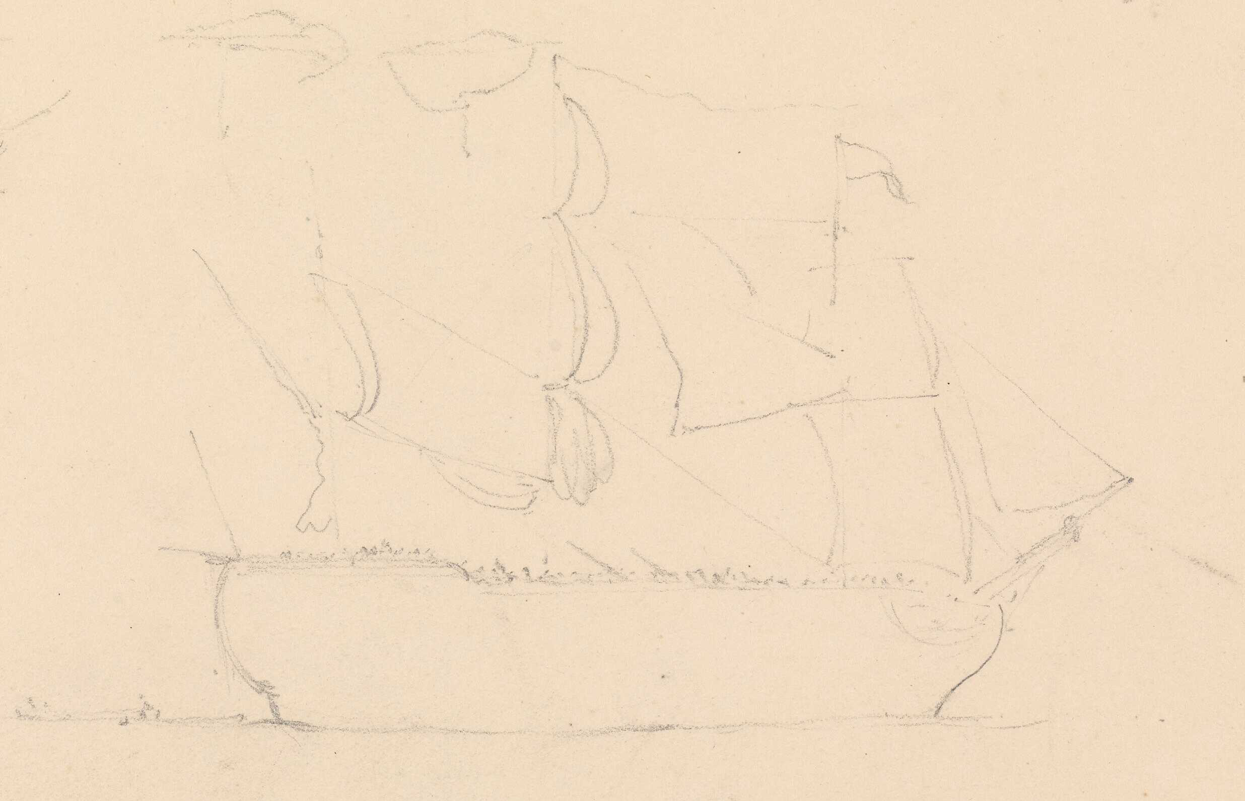 Page of slight sketches of fighting vessels, the 'Al-de-Fonso', 1814 No. 22 of 30 (PAH3772 - PAH3801) The original drawing from which this is cropped is inscribed in the upper right 'L’Espoir – 18 going into Portsmouth harbour/Dr. 2d – 1813', and in the lower left 'Al De Fonso – Spanish man of war/going into harbour/ June 12th 1814'. Page of slight sketches of fighting vessels